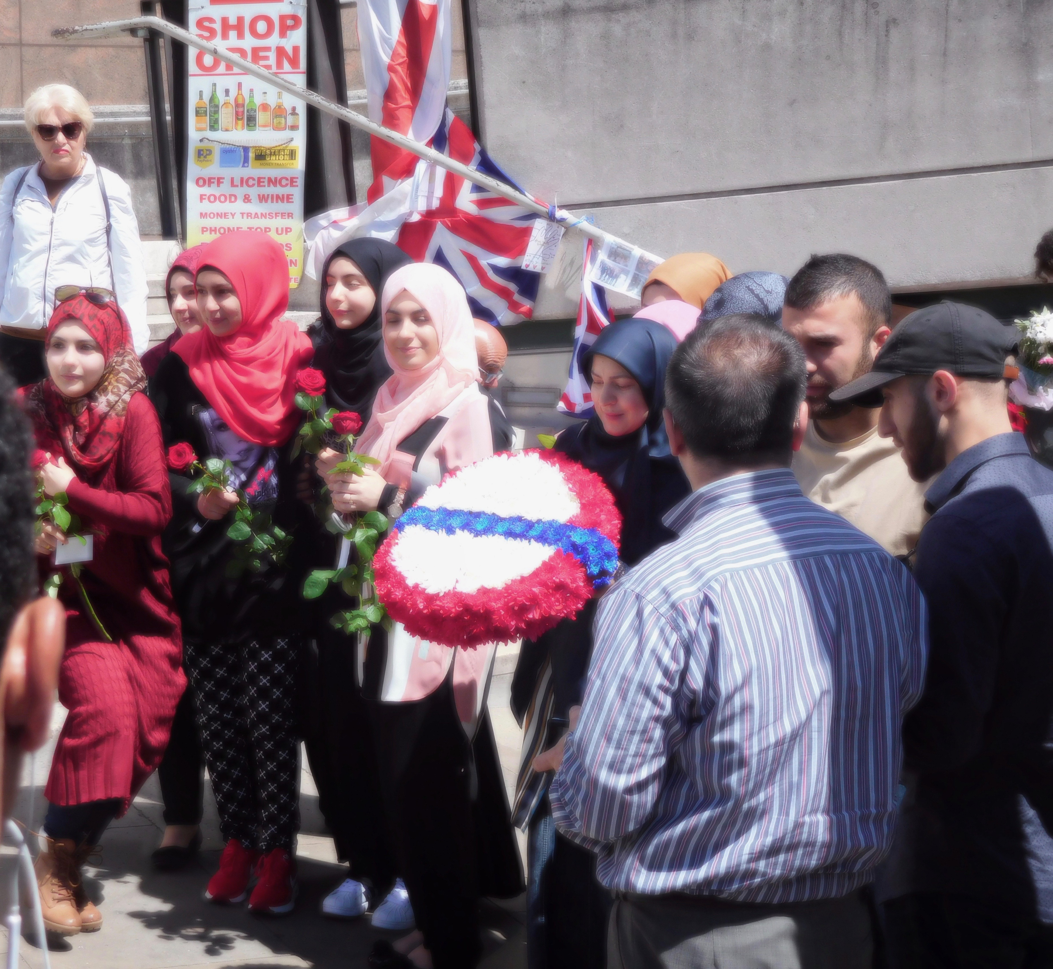 Muslim families at London Bridge days after the 2017 attack. This was at the south end of the bridge. They were handing out roses for people to place on the tribute at the south end of the bridge where the attack was the worst.